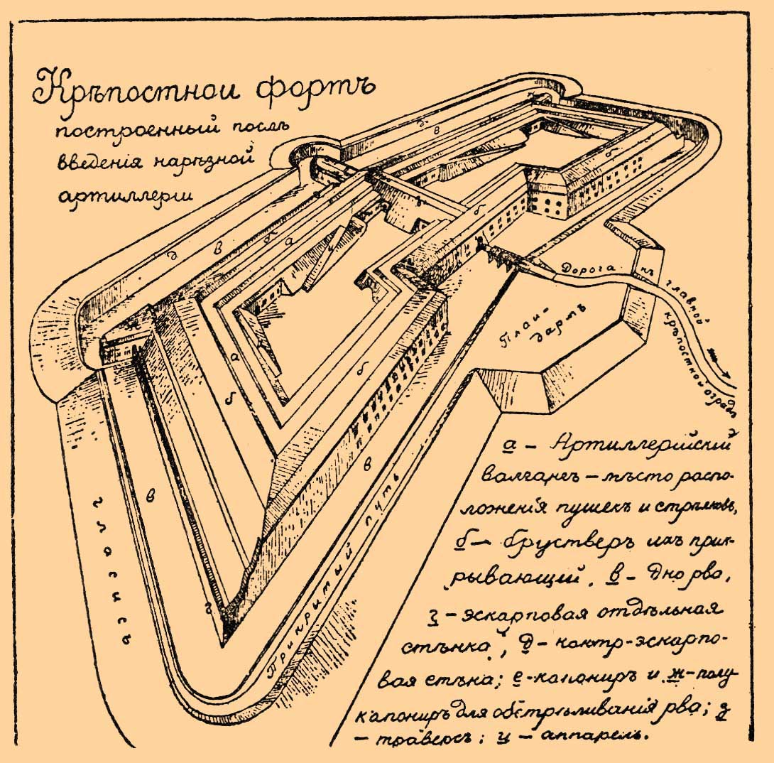 Illustration from Brockhaus and Efron Encyclopedic Dictionary (1890—1907)